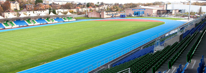 Main Stand, Track and Pitch